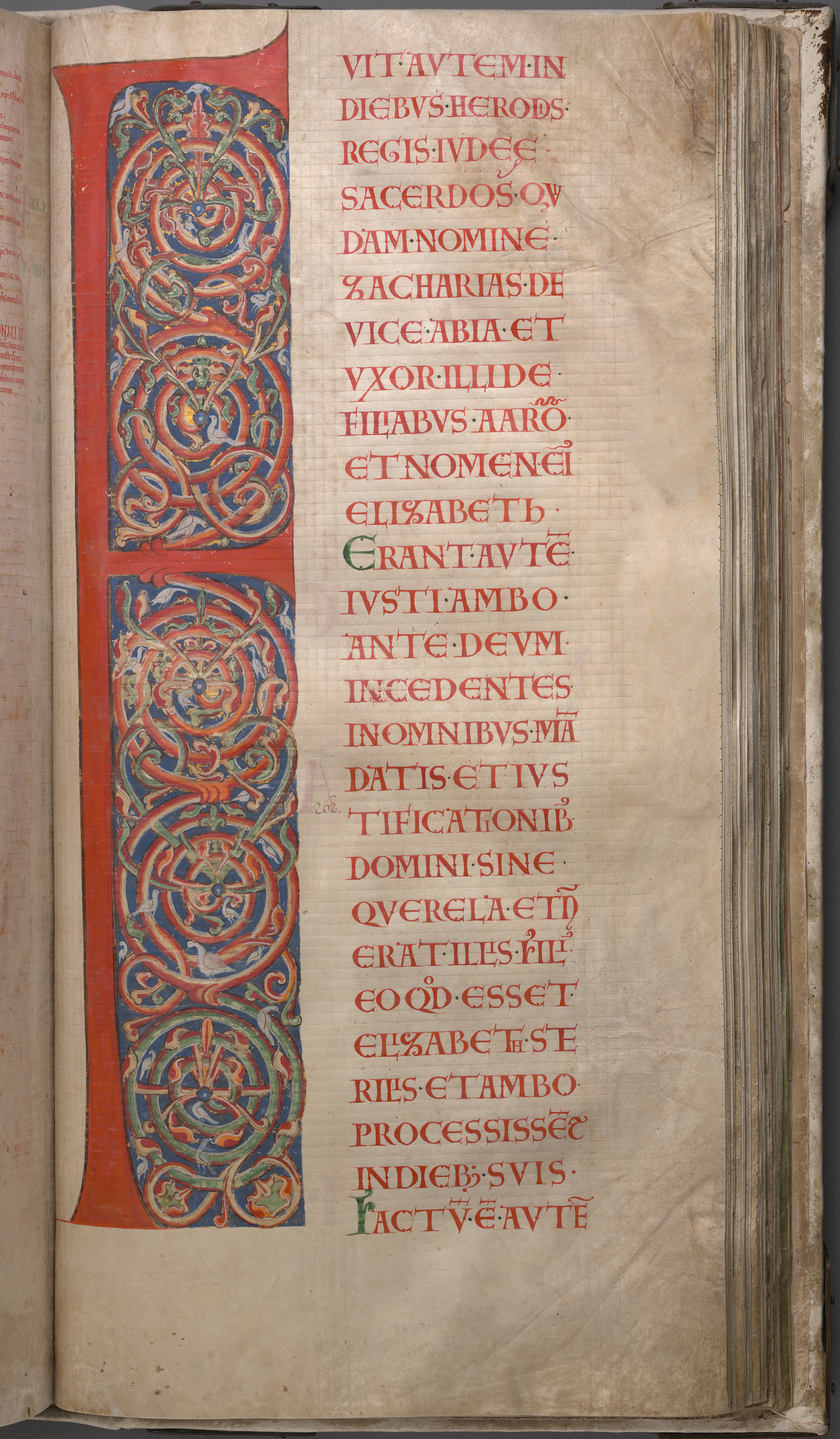 Giant Book) is the largest extant medieval manuscript in the world. It is also known as the Devil's Bible because of a large illustration of the devil on the inside and the legend surrounding its creation. It is thought to have been created in the early 13th century in the Benedictine monastery of Podlažice in Bohemia (modern Czech Republic). It contains the Vulgate Bible as well as many historical documents all written in Latin. During the Thirty Years' War in 1648, the entire collection was taken by the Swedish army as plunder, and now it is preserved at the National Library of Sweden in Stockholm, though it is not normally on display.